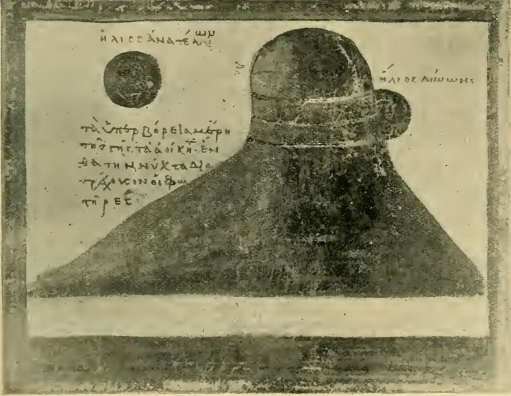 The mountain in the north